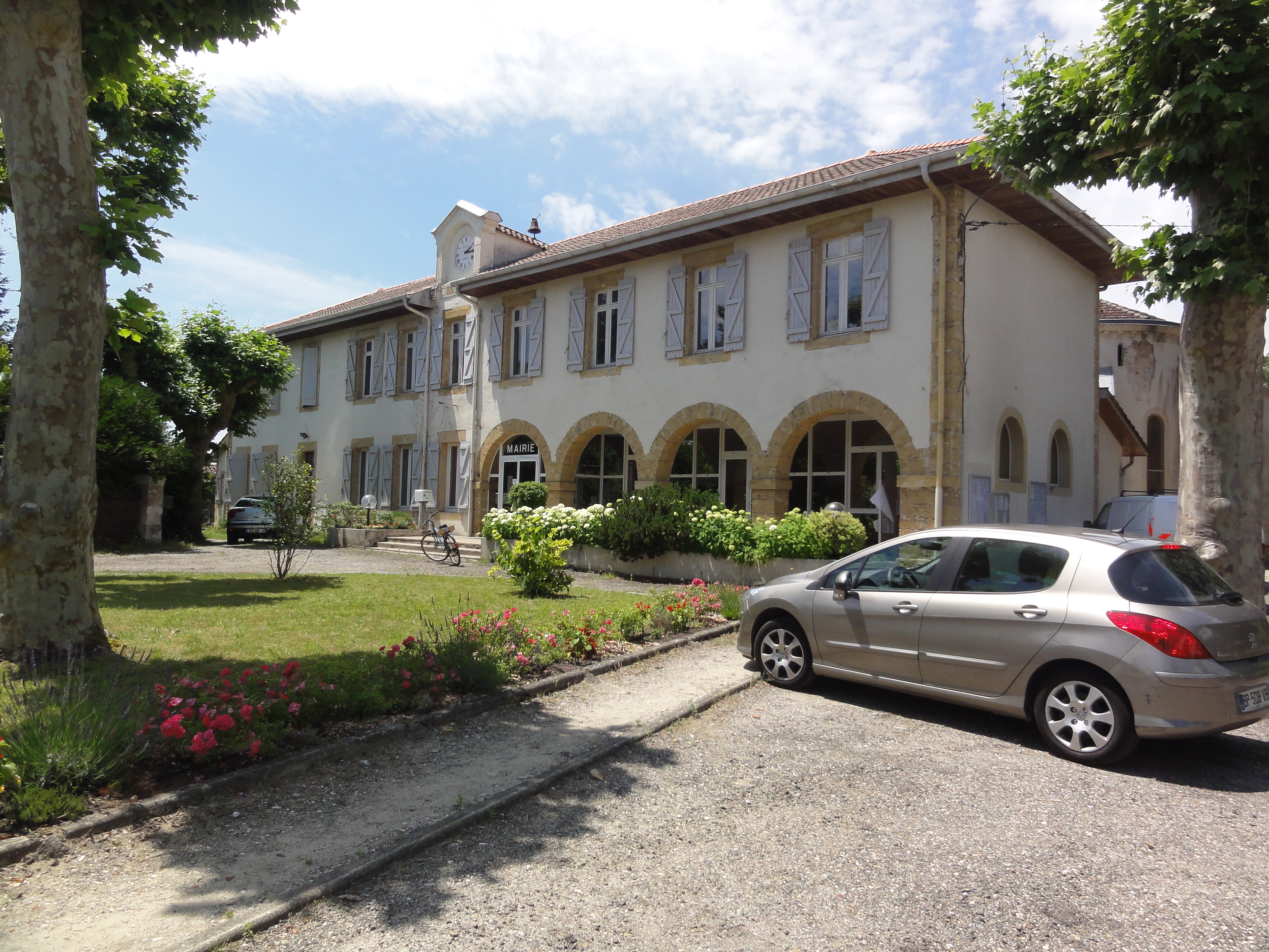 Onesse-et-Laharie (Landes) mairie